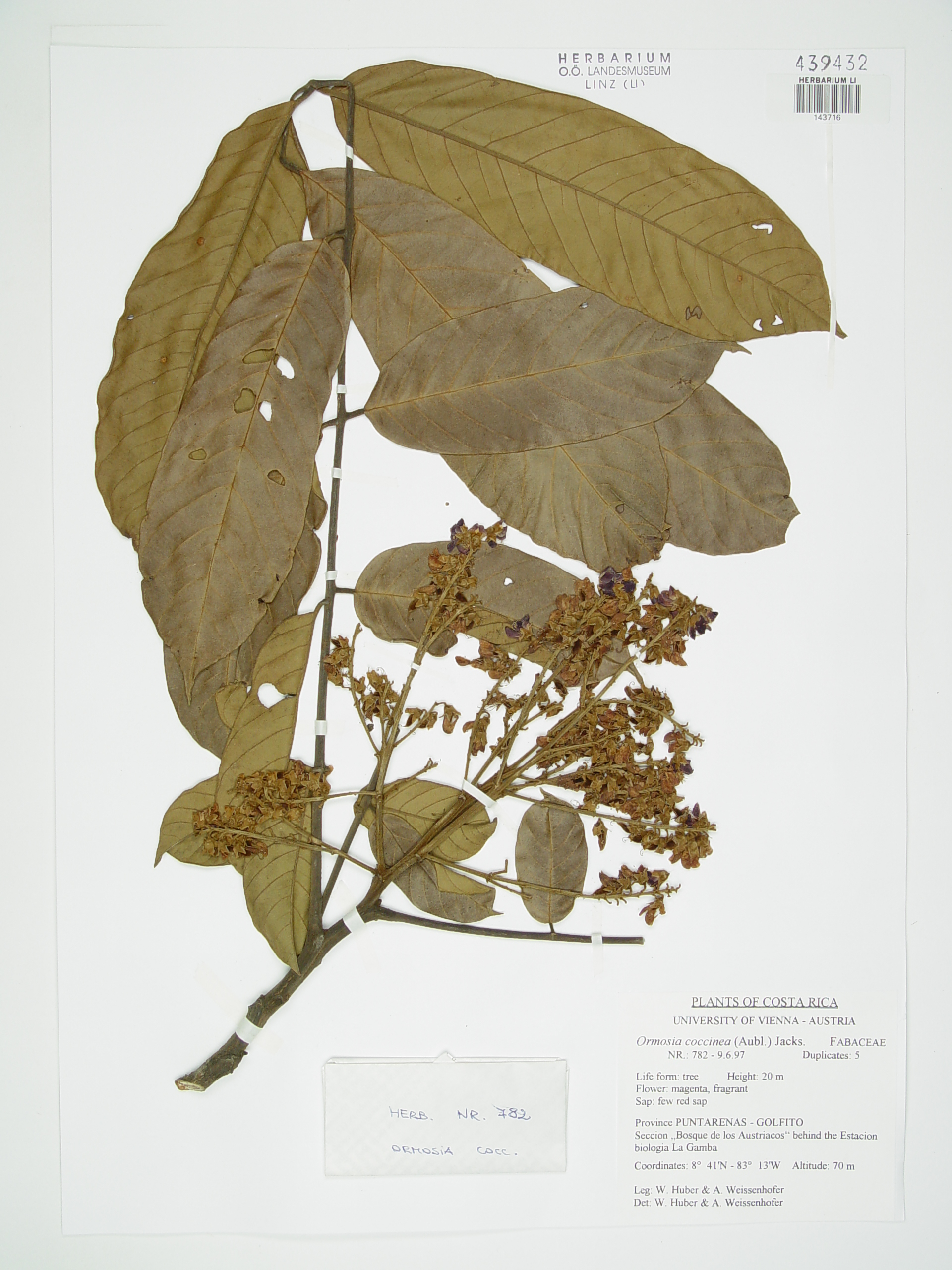 Leaves and flowers